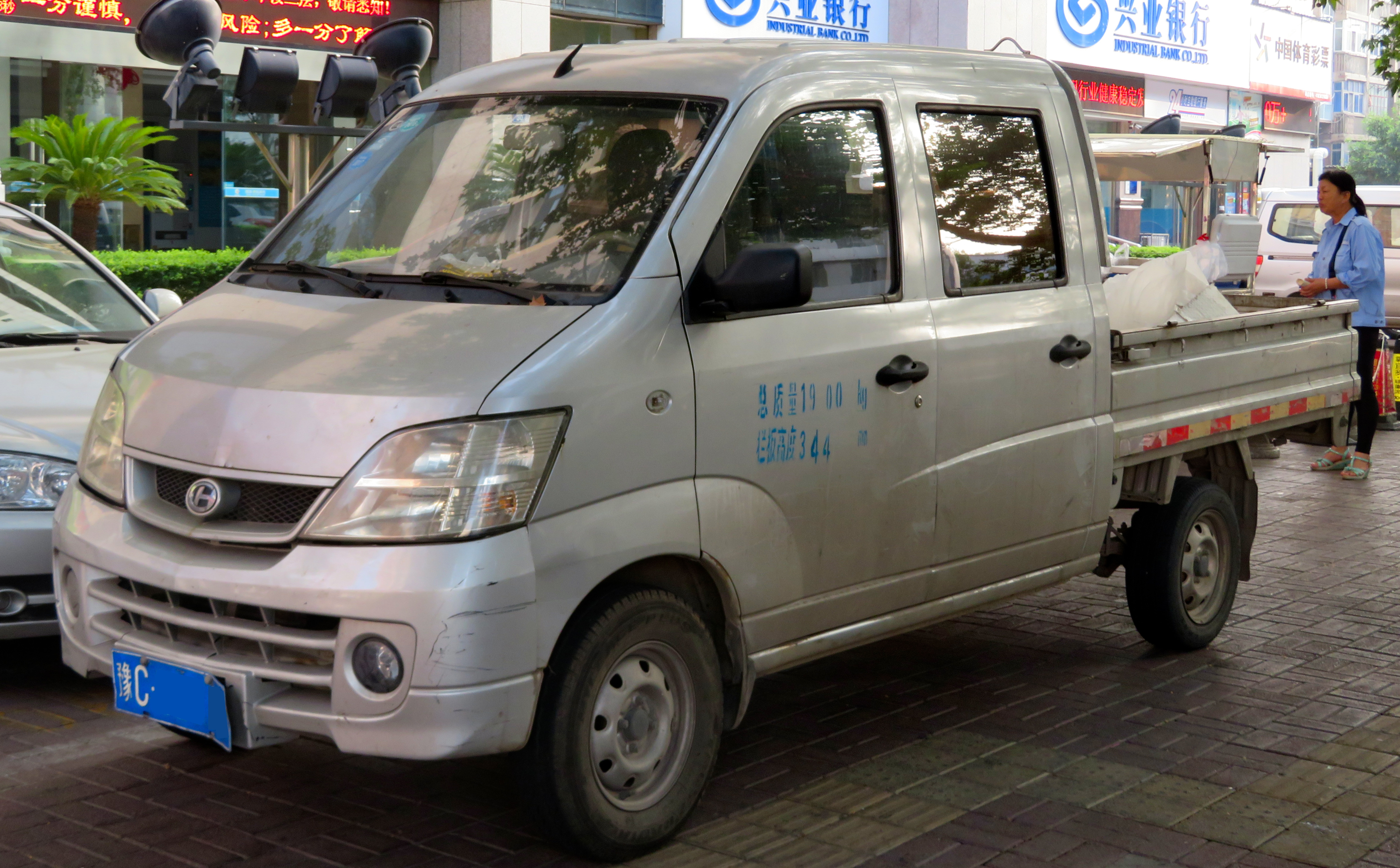 A 2008 Jiangxi-Changhe Freedom CH1021E double cab photographed in Xigong District, Luoyang, Henan province, China